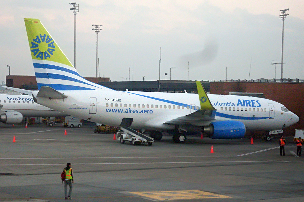 HK-4682, This aircraft crashed on August 16, 2010 on landing at the airport on the island of San Andrés, Colombia. Two people died. The plane was destroyed, having broken up in three parts.